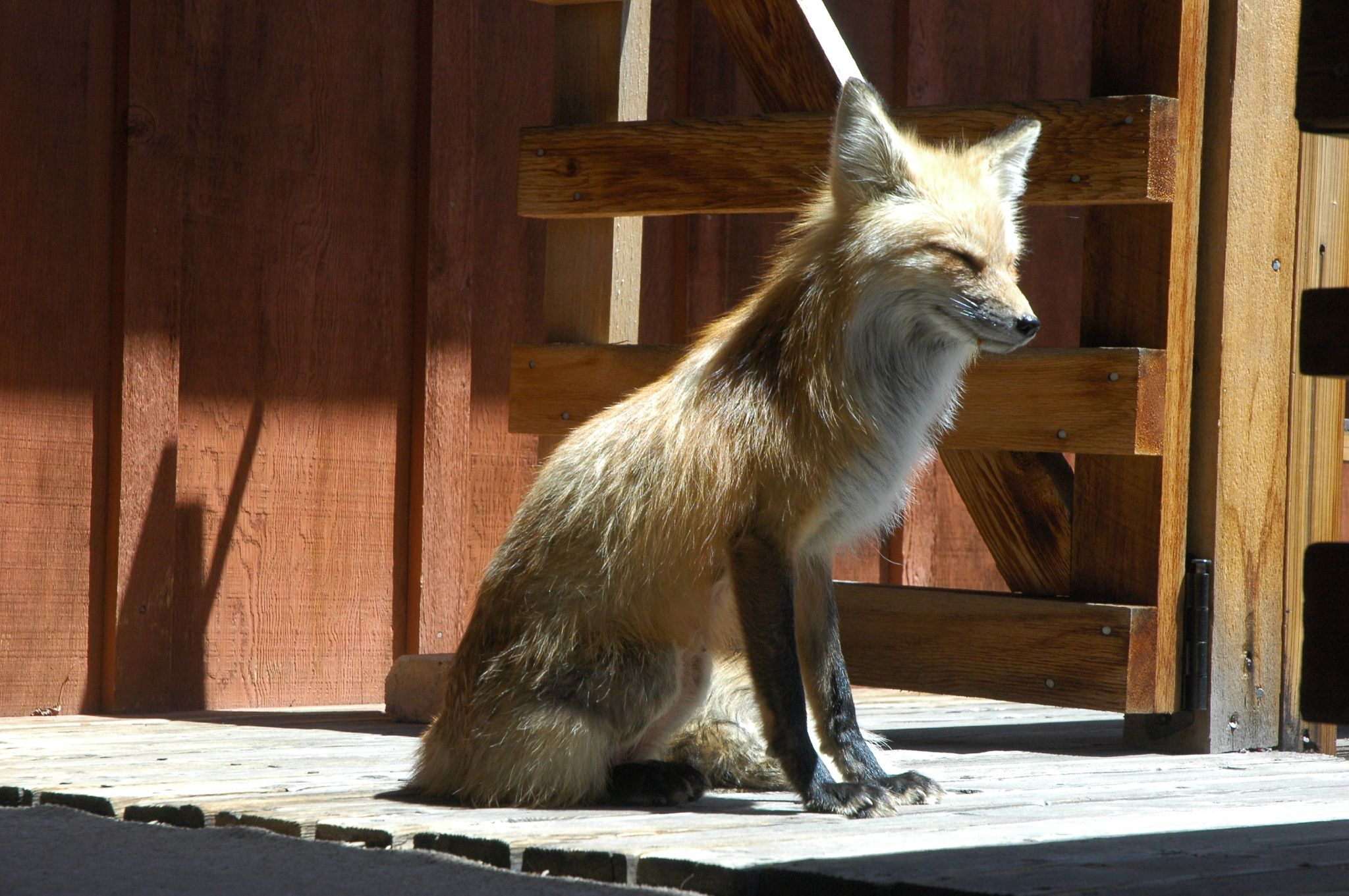 A Red Fox on an Evergreen, Colorado's porch.